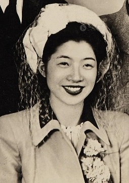 Li Lin at her wedding in England, 1948